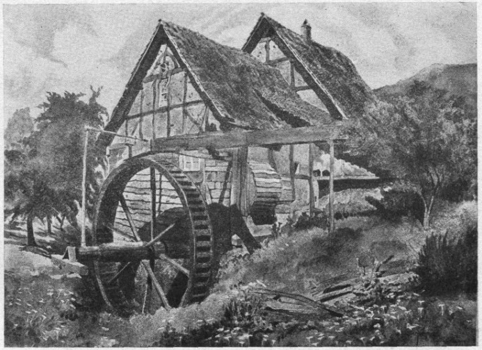 A copy of a typical Wilhelm Schott painting - the Ölmühle a old mill near Motzenrode.